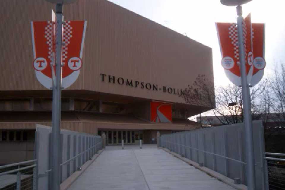 UT arena